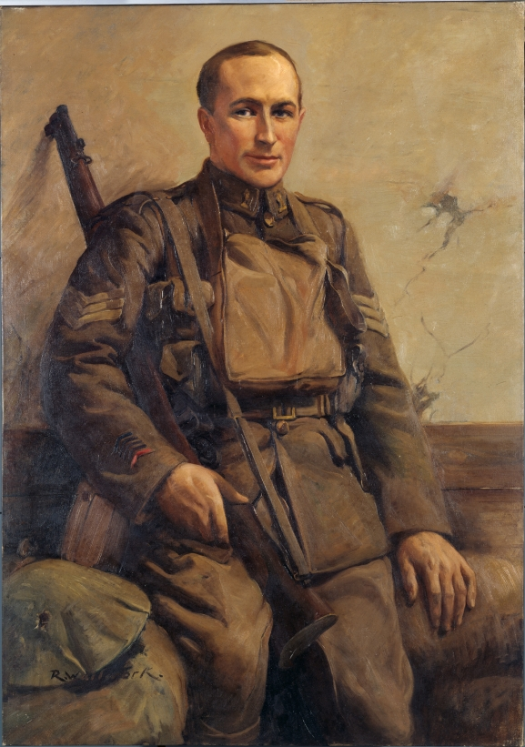 A portrait by Richard Wallwork of Sergeant Richard Travis VC, of the NZEF R22498072 AAAC 898 Box/Item 85 Record no. NCWA 455